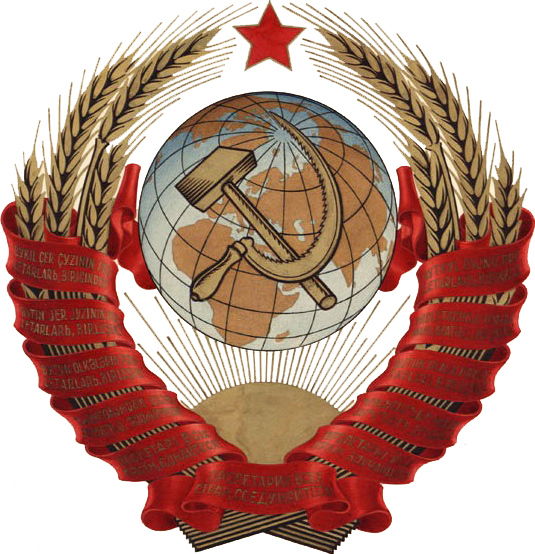 State Emblem of the Soviet Union, used from 1936 to 1946.